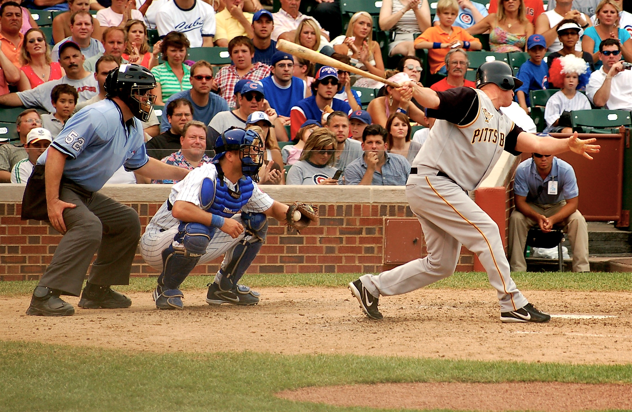 Jeromy Burnitz with a swing and a miss Wrigley Field